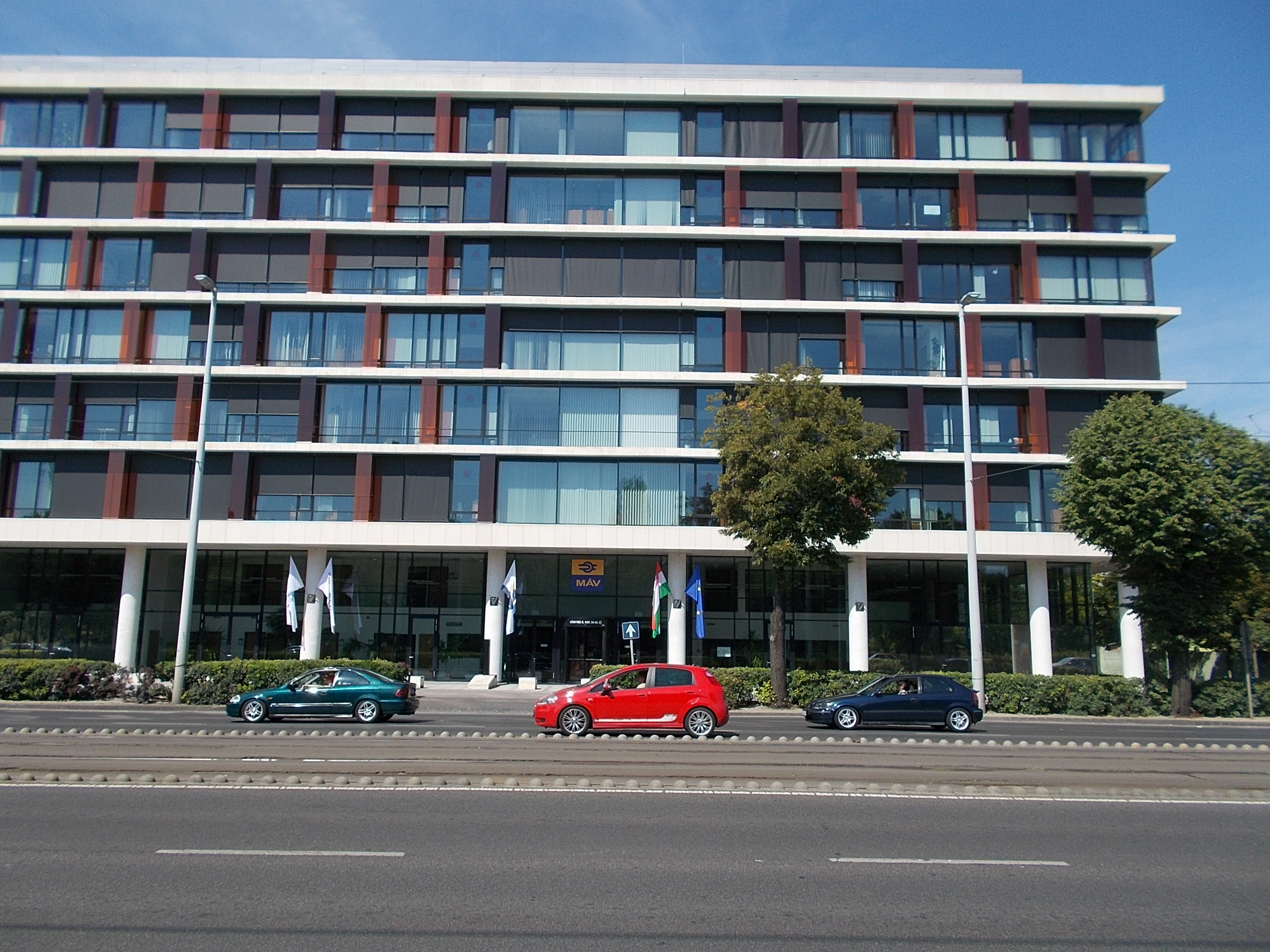 Hungarian State Railways. - Könyves Kálmán Blvd., Budapest District VIII, Budapest.